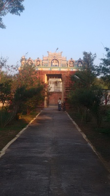 Somesvarar Temple is in Palayarai. Dharmapurisvarar Temple is in Vada Thali. Both of them are near Pattisvaram in Kumbakonam Taluk of Tamil Nadu.